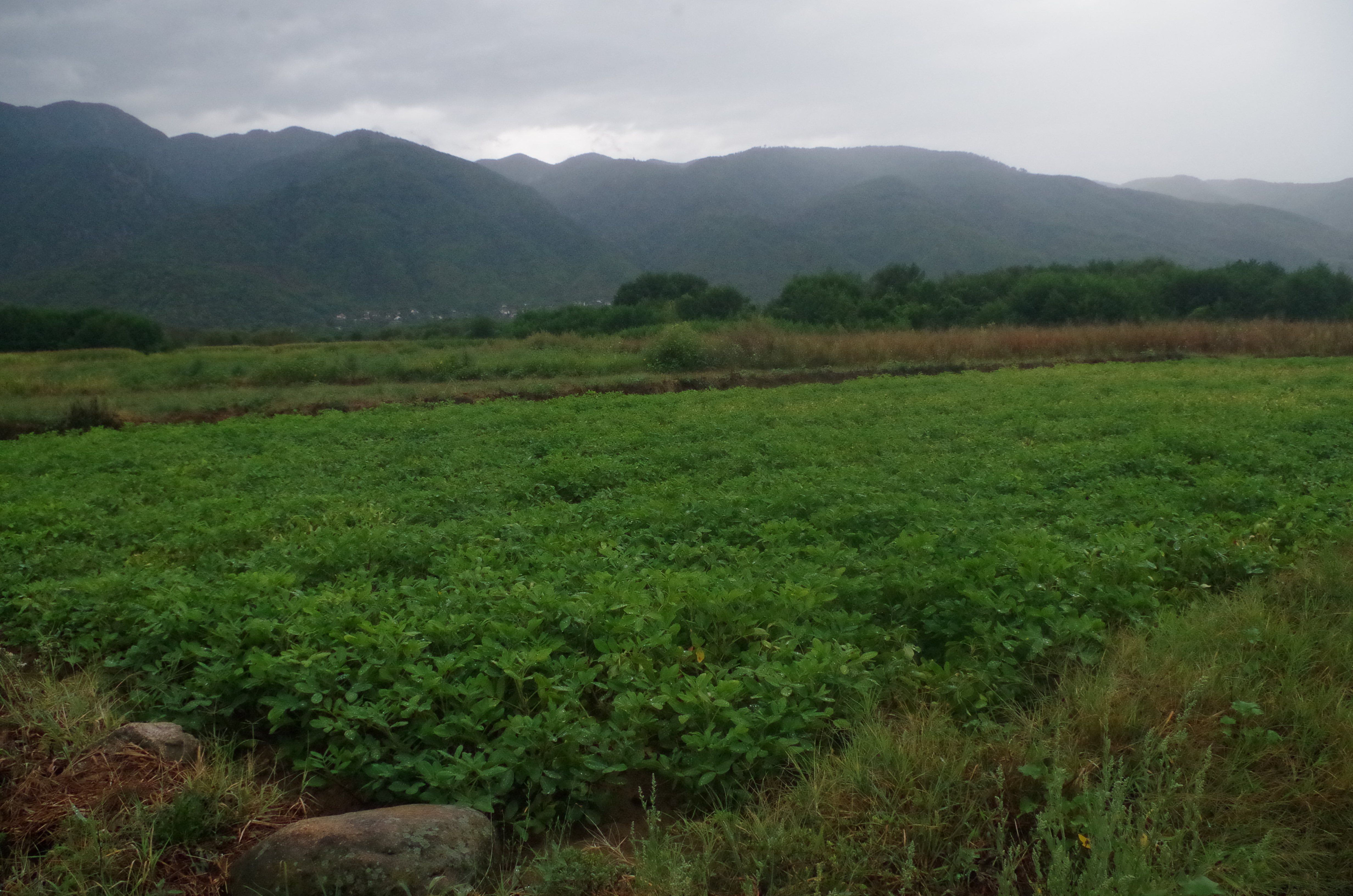 Peanut field with the Belasica mountain in the background, near the village of Koleshino in Strumica region, Macedonia